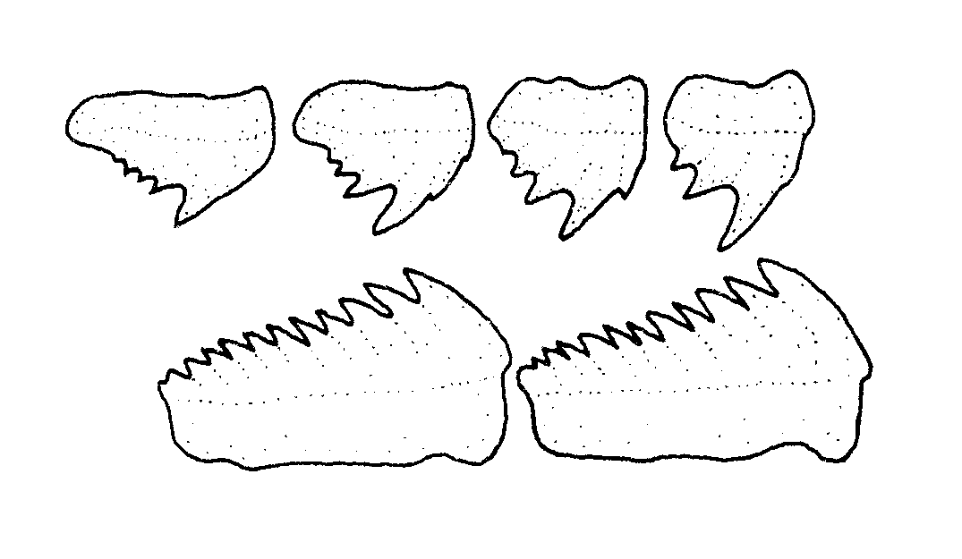 Hexanchus griseus (Bluntnose sixgill shark) teeth